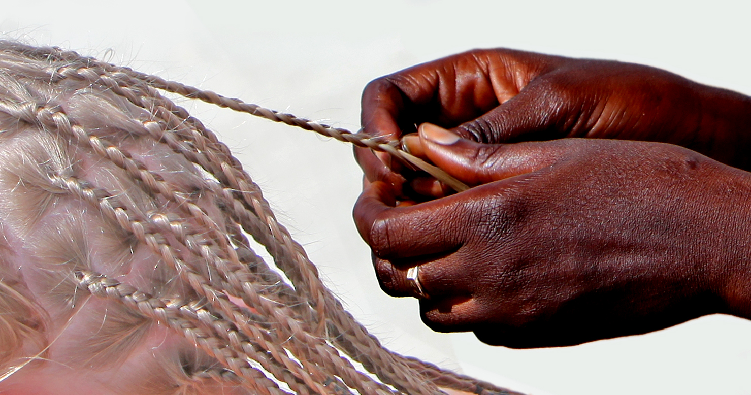 Creating a box braid as a culture exchange on Playa de Alcudia, Mallorca, Spain 2009